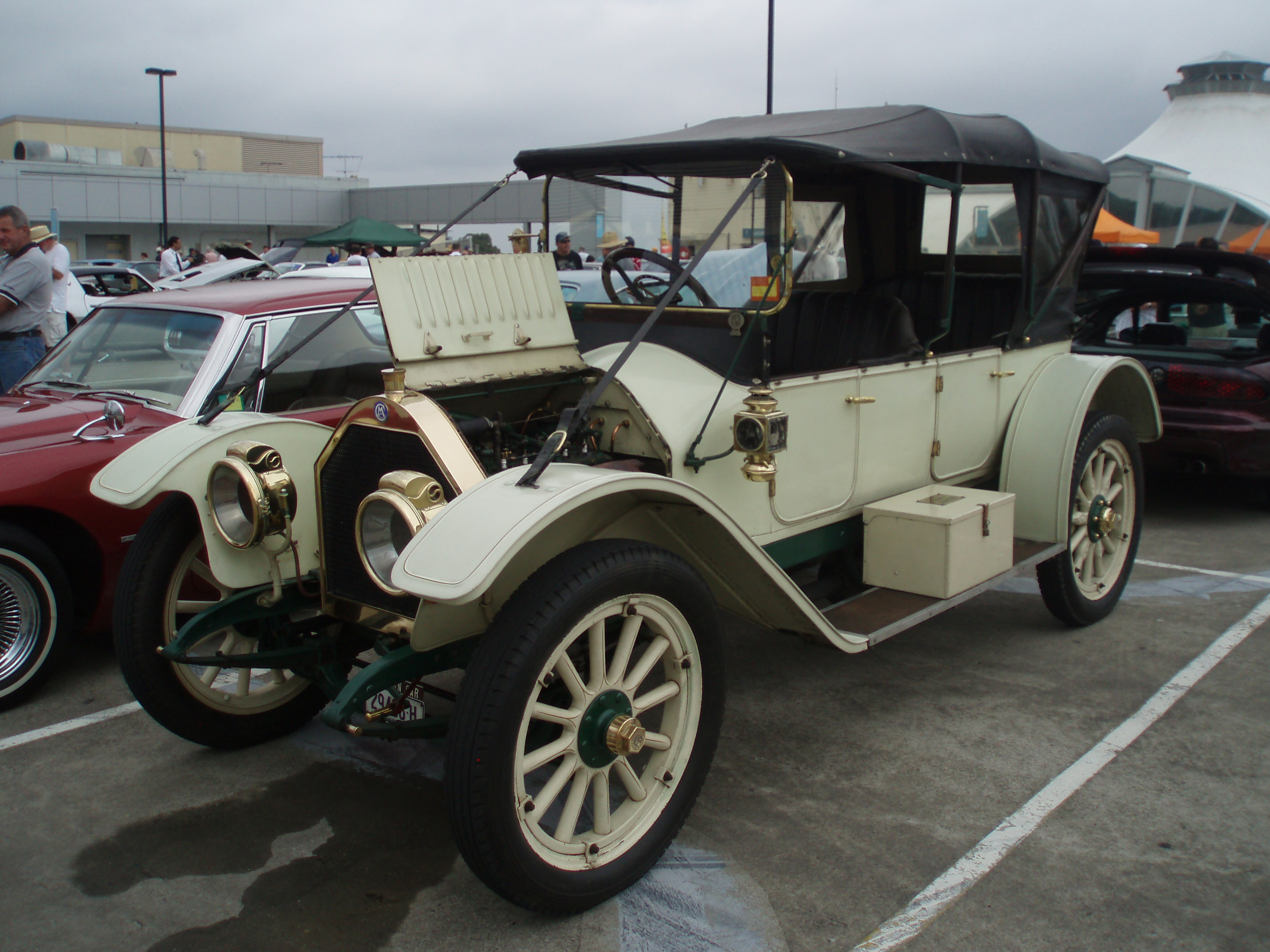 1913 Chalmers tourer. Taken at the 2011 New South Wales All American Day, held at Castle Towers Shopping Centre, Castle Hill, Sydney.